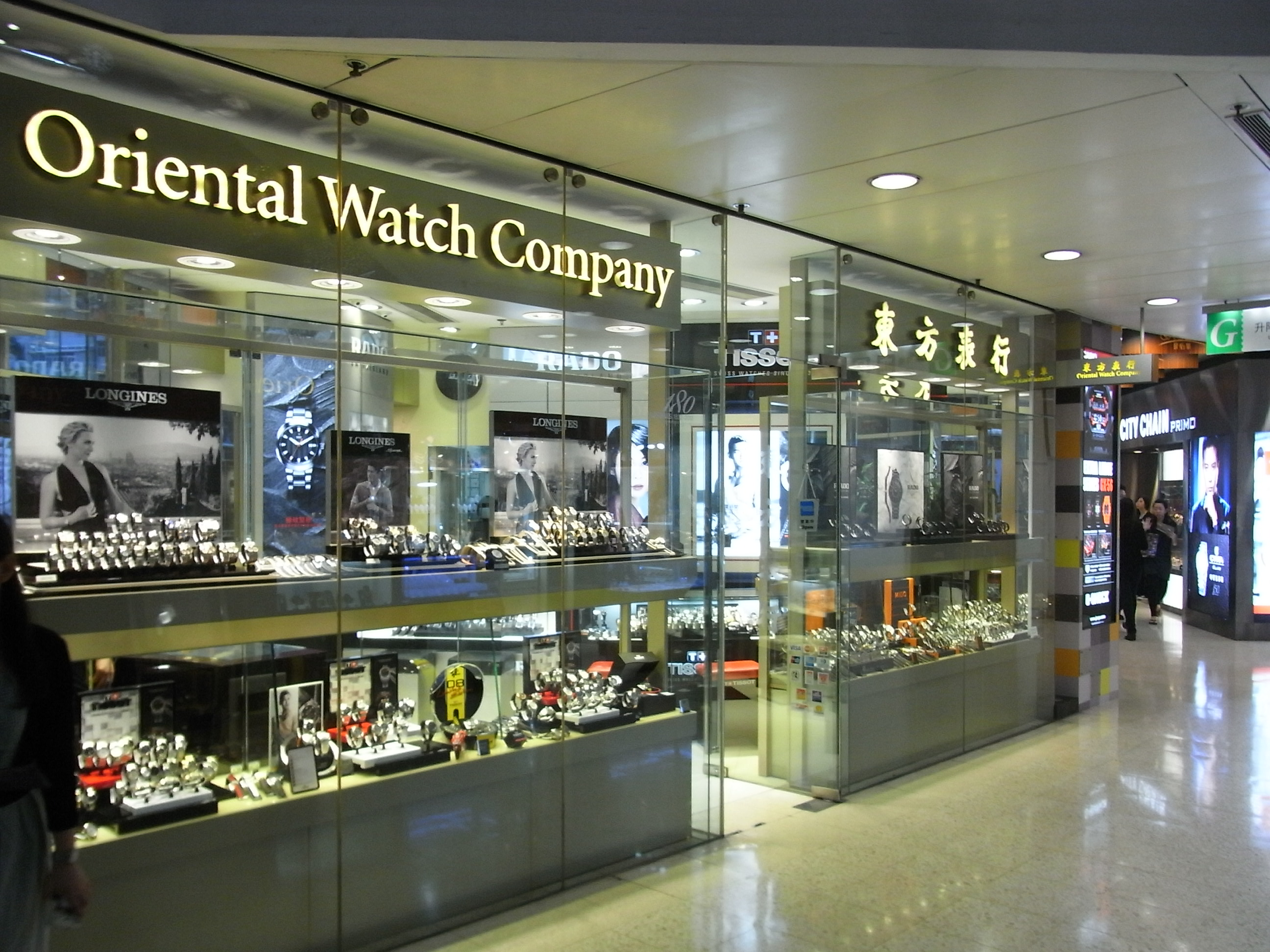 始創中心, Pioneer Centre, Nathan Road, Mongkok, Hong Kong